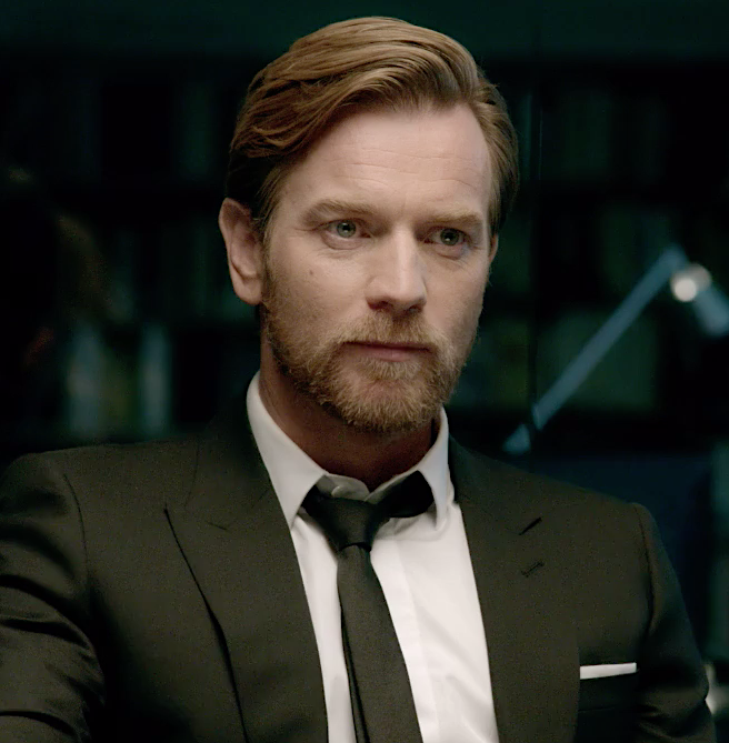 Ewan McGregor in 2013